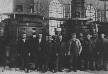 Turbines of the power plant in Rottenburg-Kiebingen after refurbishment in 1912